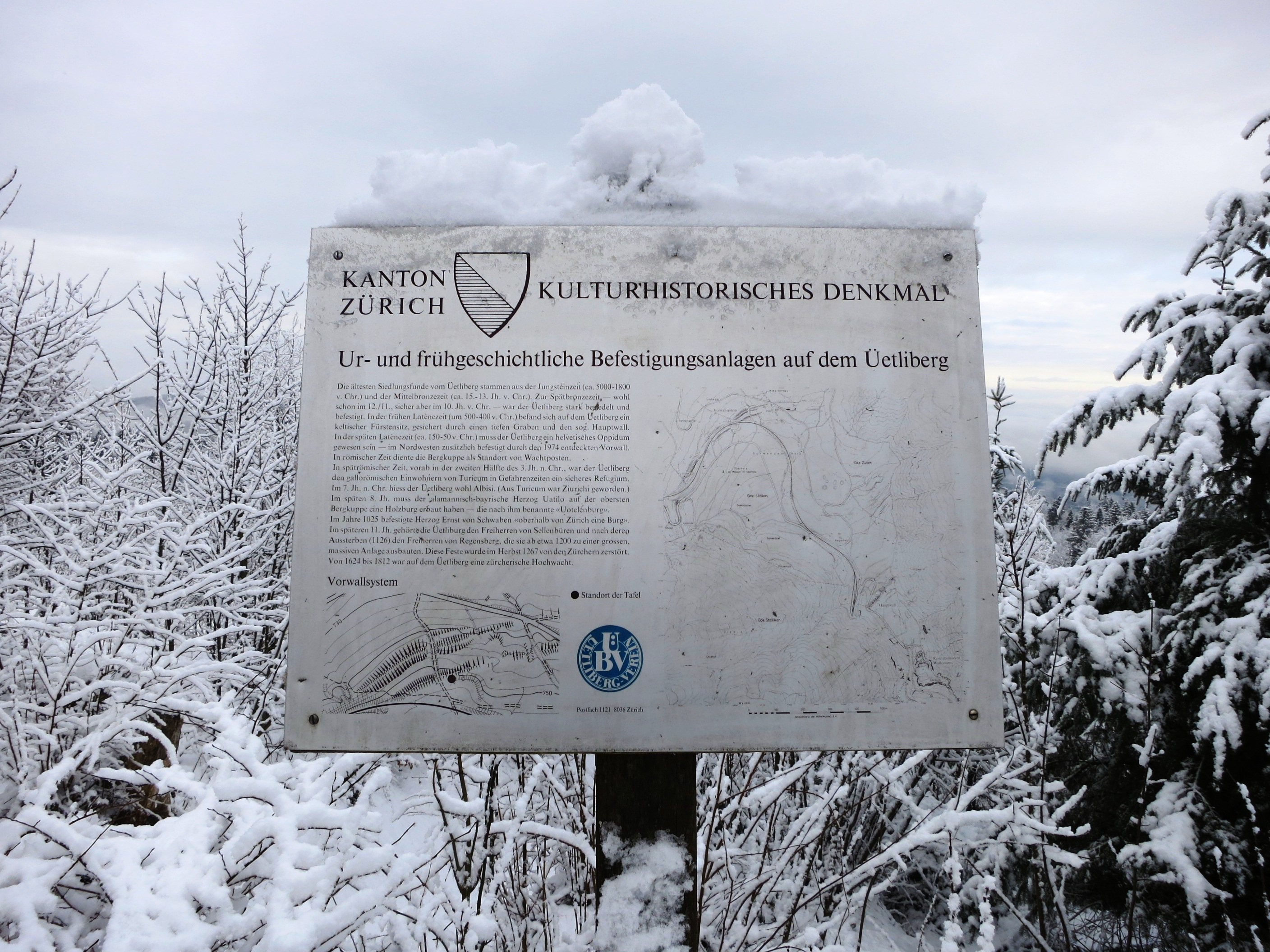 Wallanlage der älteren Eisenzeit, Uitikon ZH, Schweiz